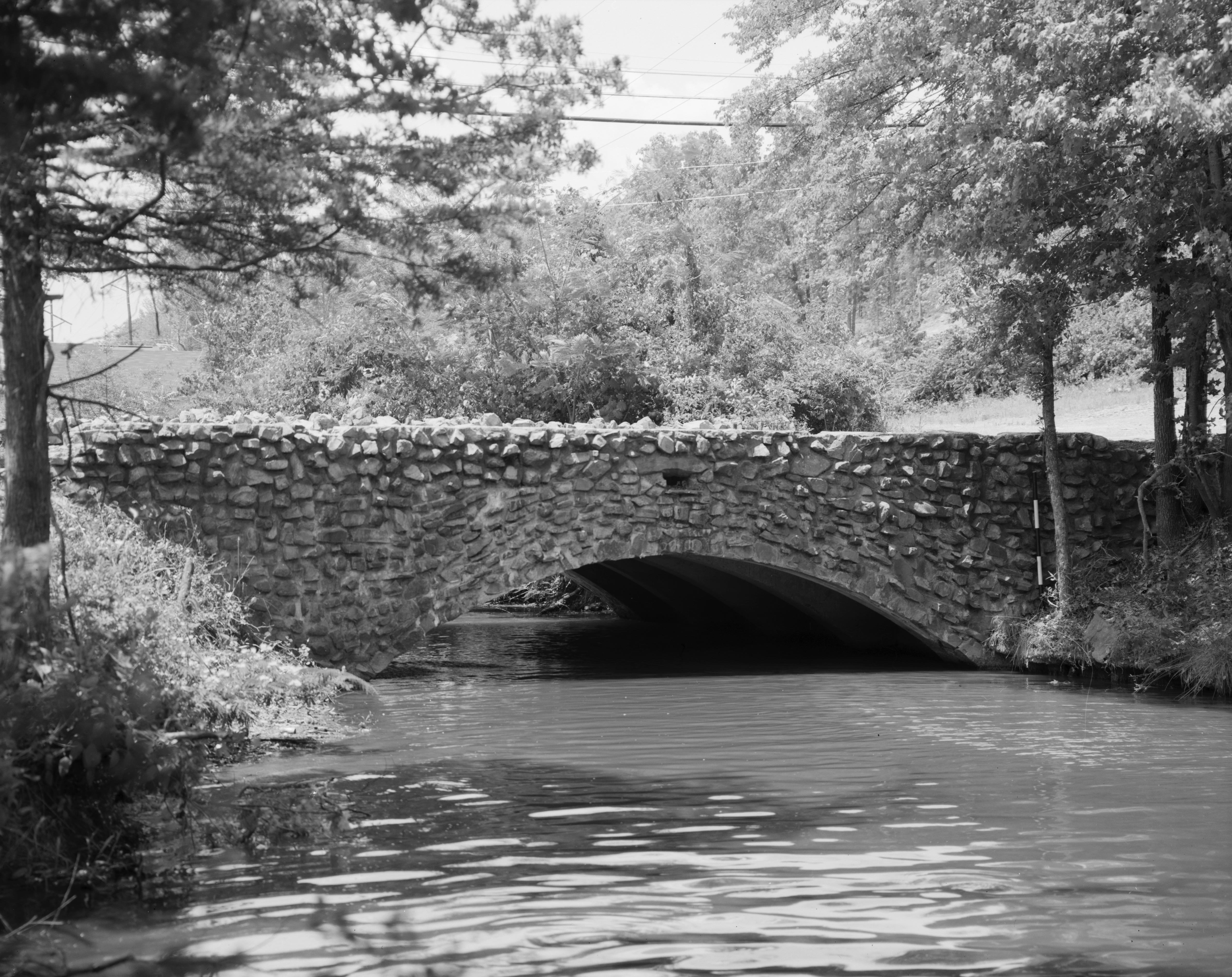 Eastern side of the Lake No. 1 Bridge, which carries Avondale Road over Lake No. 1 in North Little Rock, Arkansas, United States. Built in 1935, this closed spandrel deck arch bridge is listed on the National Register of Historic Places.